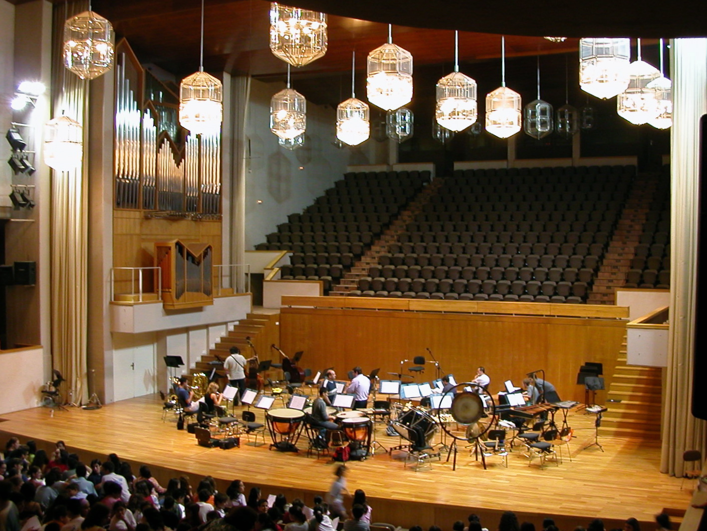 Manuel de Falla Concert Hall (Granada, Spain)